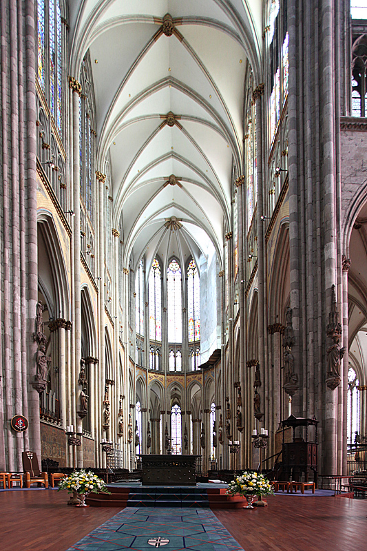 Cologne Cathedral, High Altar